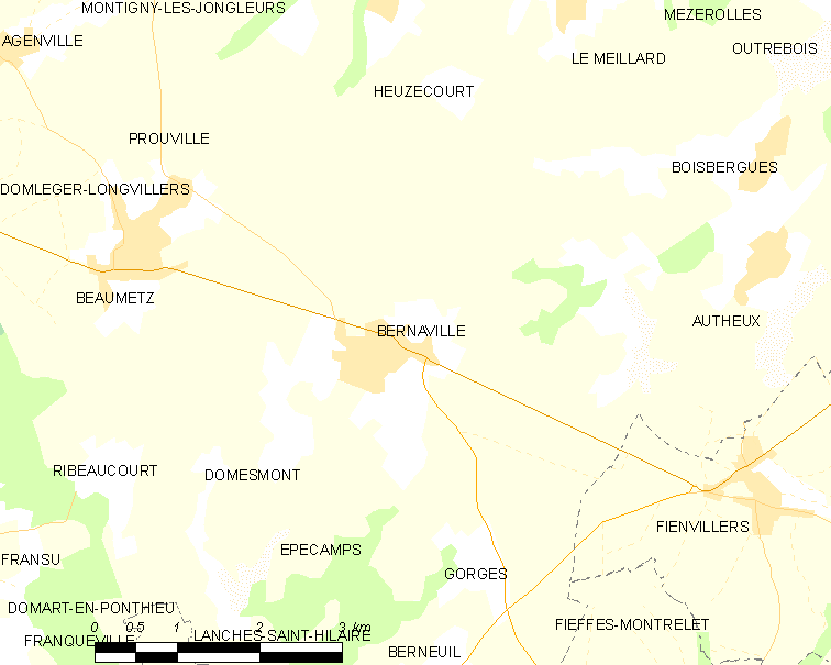 Map of French municipality Bernaville